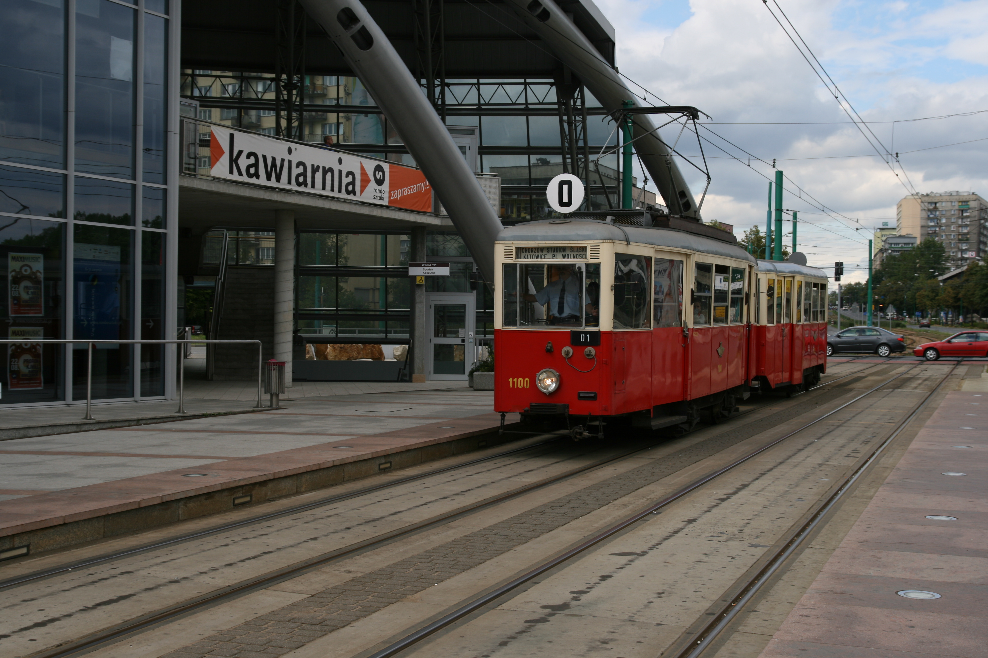 Konstal N tram (#1100) number 0 in Katowice, Poland.